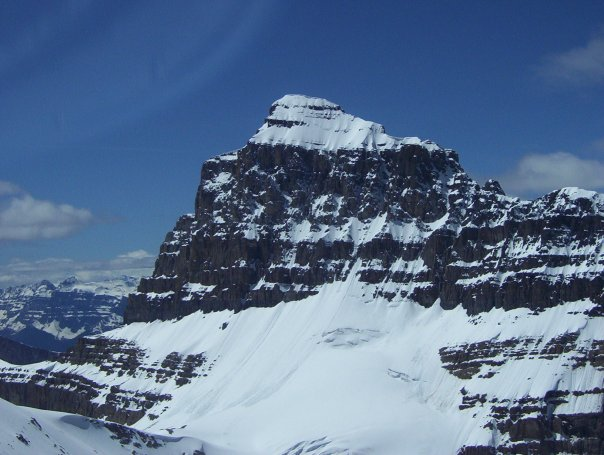 Mount Cline, Alberta, Canada. Mountain peak in the Canadian Rockies